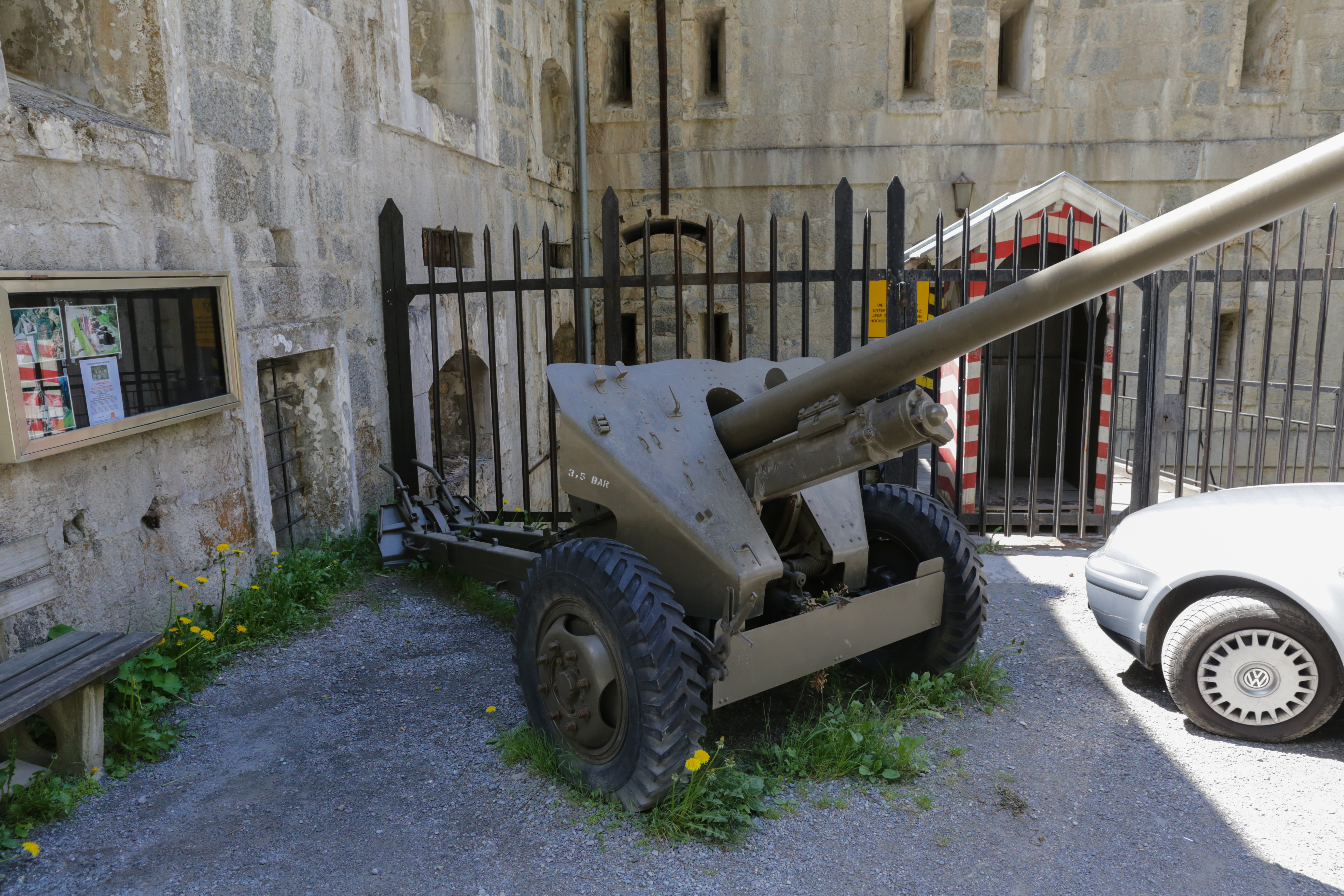 Fort Nauders, Nauders, Tyrol The making of this work was supported by Wikimedia Austria. For other files made with the support of Wikimedia Austria, please see the category Supported by Wikimedia Österreich. Dieses Foto wurde im Rahmen des von Wikimedia Österreich unterstützten ProjektsWiki Takes Nordtiroler Oberland erstellt. The making of this work was supported by Wikimedia Austria. For other files made with the support of Wikimedia Austria, please see the category Supported by Wikimedia Österreich.